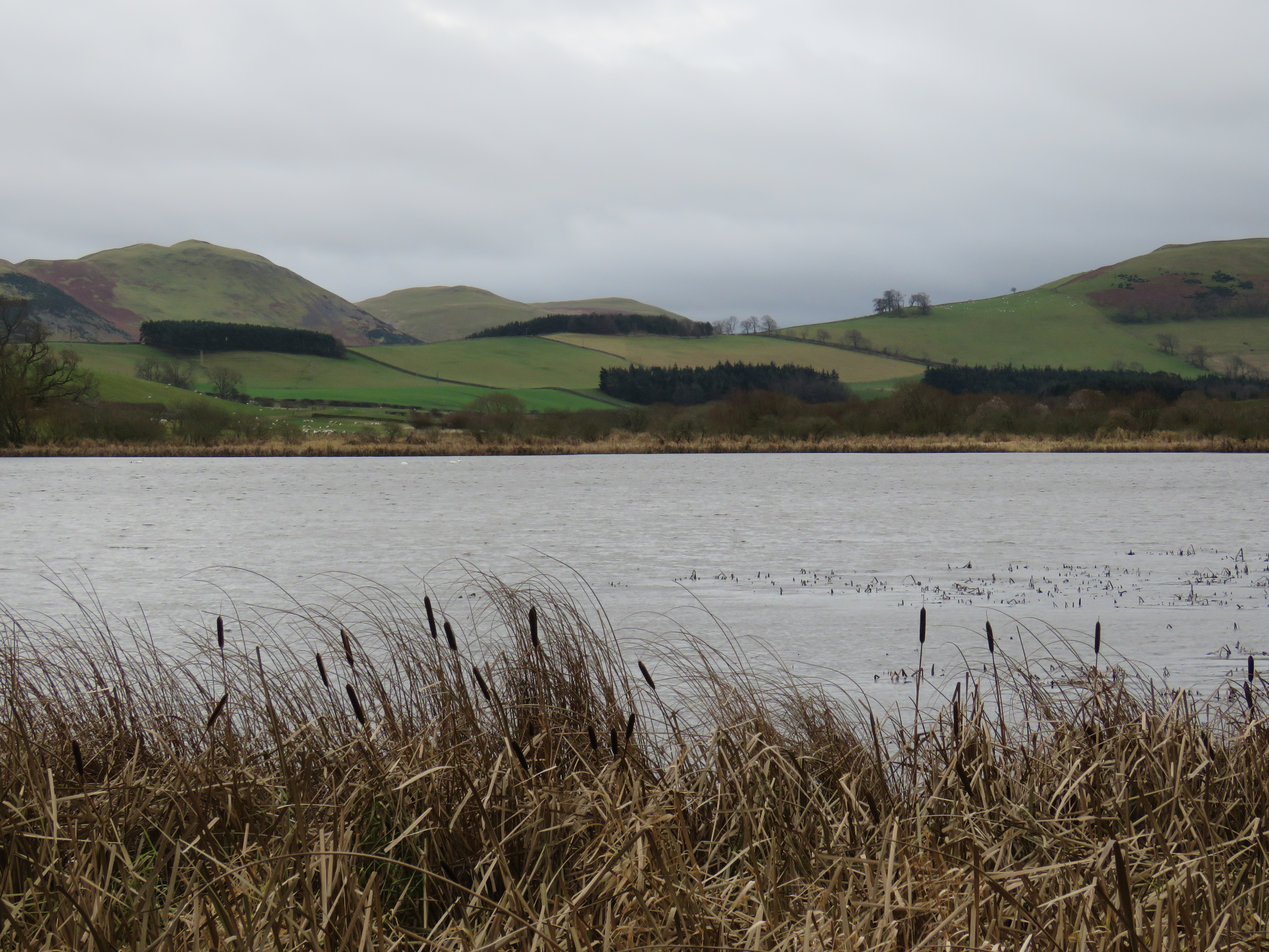 Yetholm Loch, Borders region, Scotland